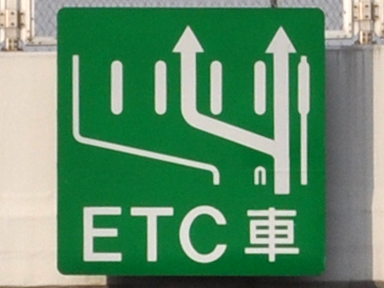 Sign showing lanes with ETC system. Photographed in Yokohama, Japan.